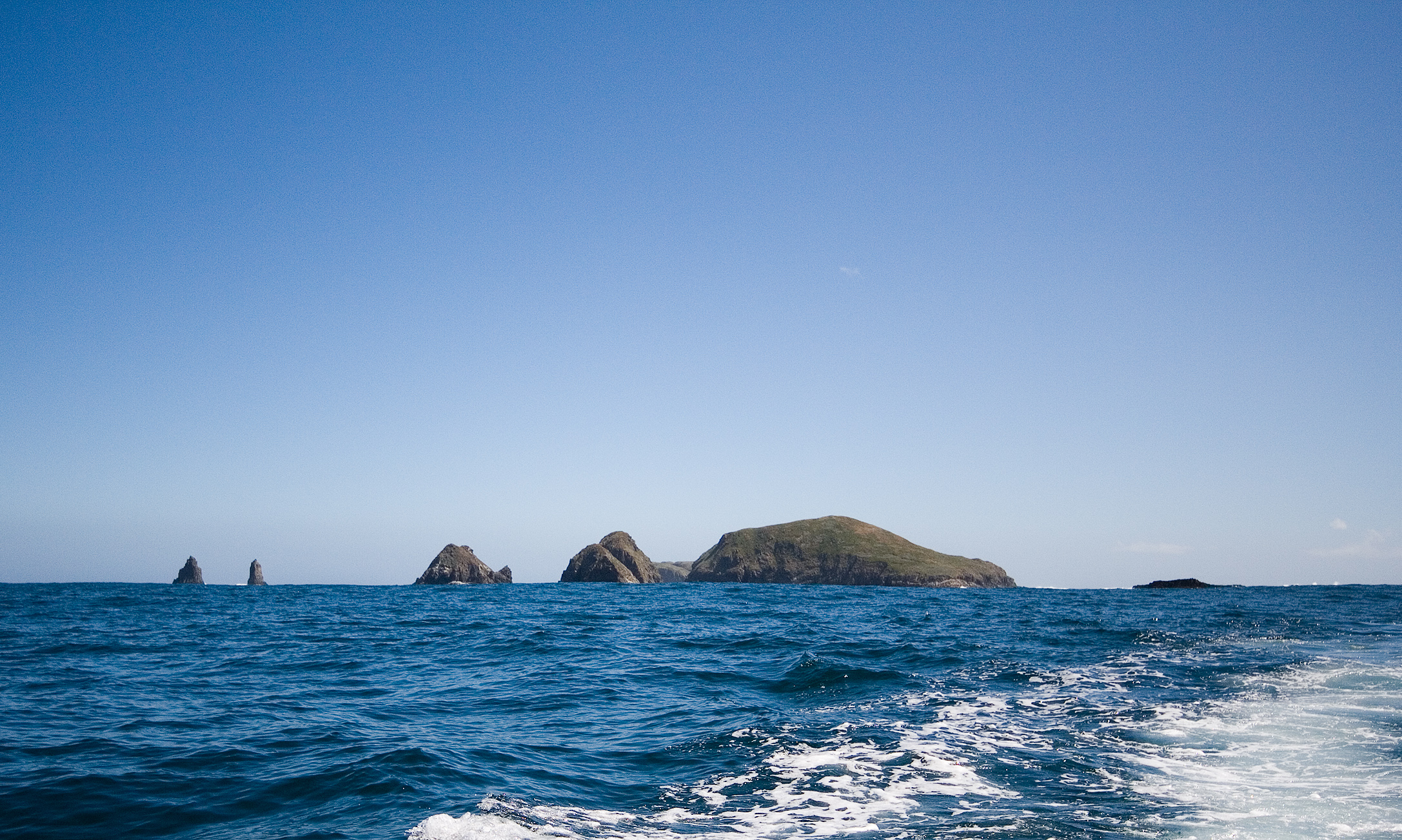 The Friar Island Group, forming part of the South Bruny National Park Camera data Camera Canon EOS 400D Lens Sigma 10-20mm F4-5.6 EX DC HSM Focal length 20 mm Aperture f/5.6 Exposure time 1/2000 s Sensivity ISO 400